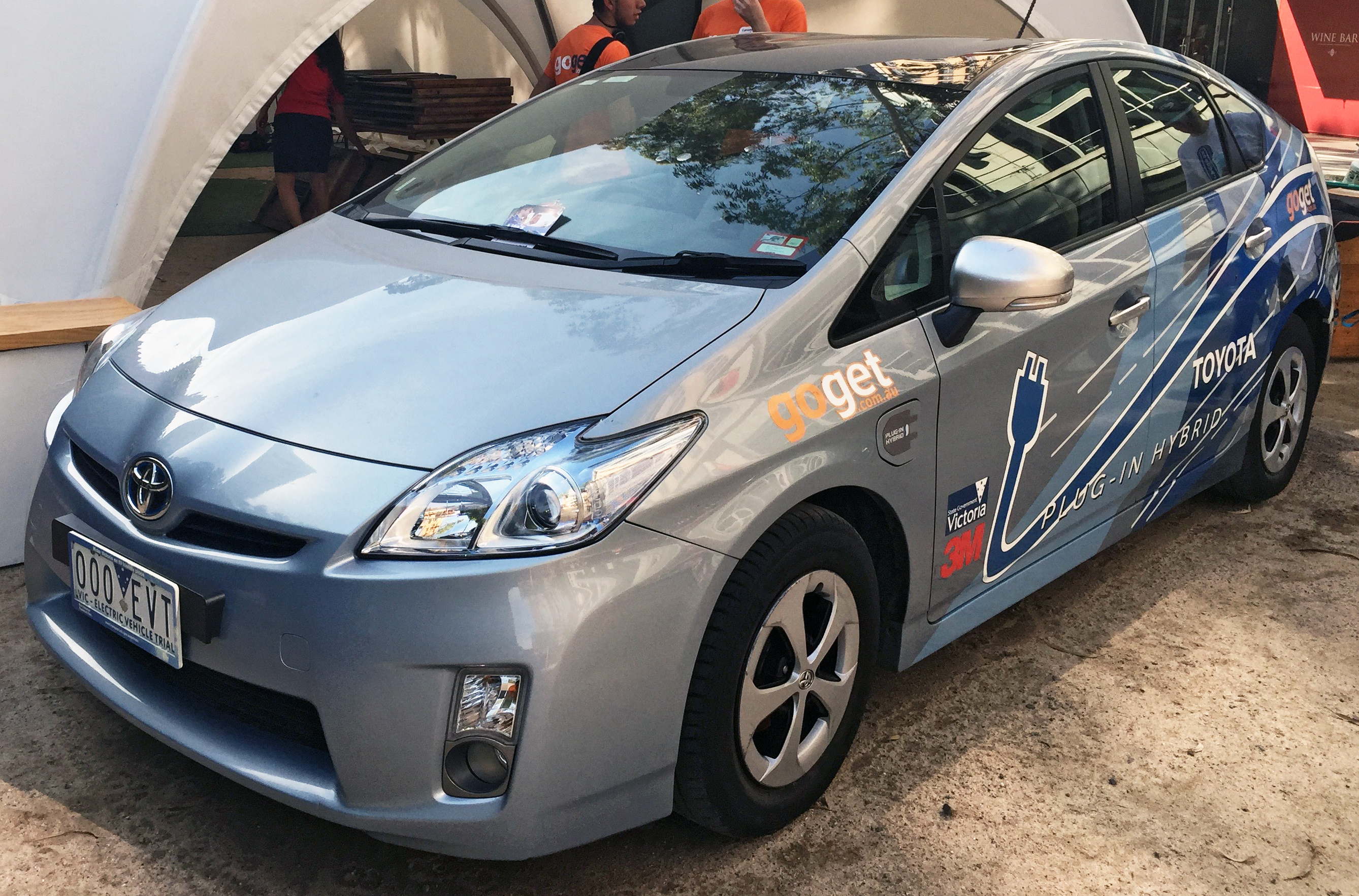 2010 Toyota Prius Plug-In (ZVW35R) liftback, GoGet CarShare. Photographed in City Square, Melbourne, Victoria, Australia. Vehicle registration enquiry resultsJurisdictionVictoriaRegistration000EVTChassis codeJTDKN36P003000742Engine codeR1444174Compliance date2010-05Year of manufacture2010